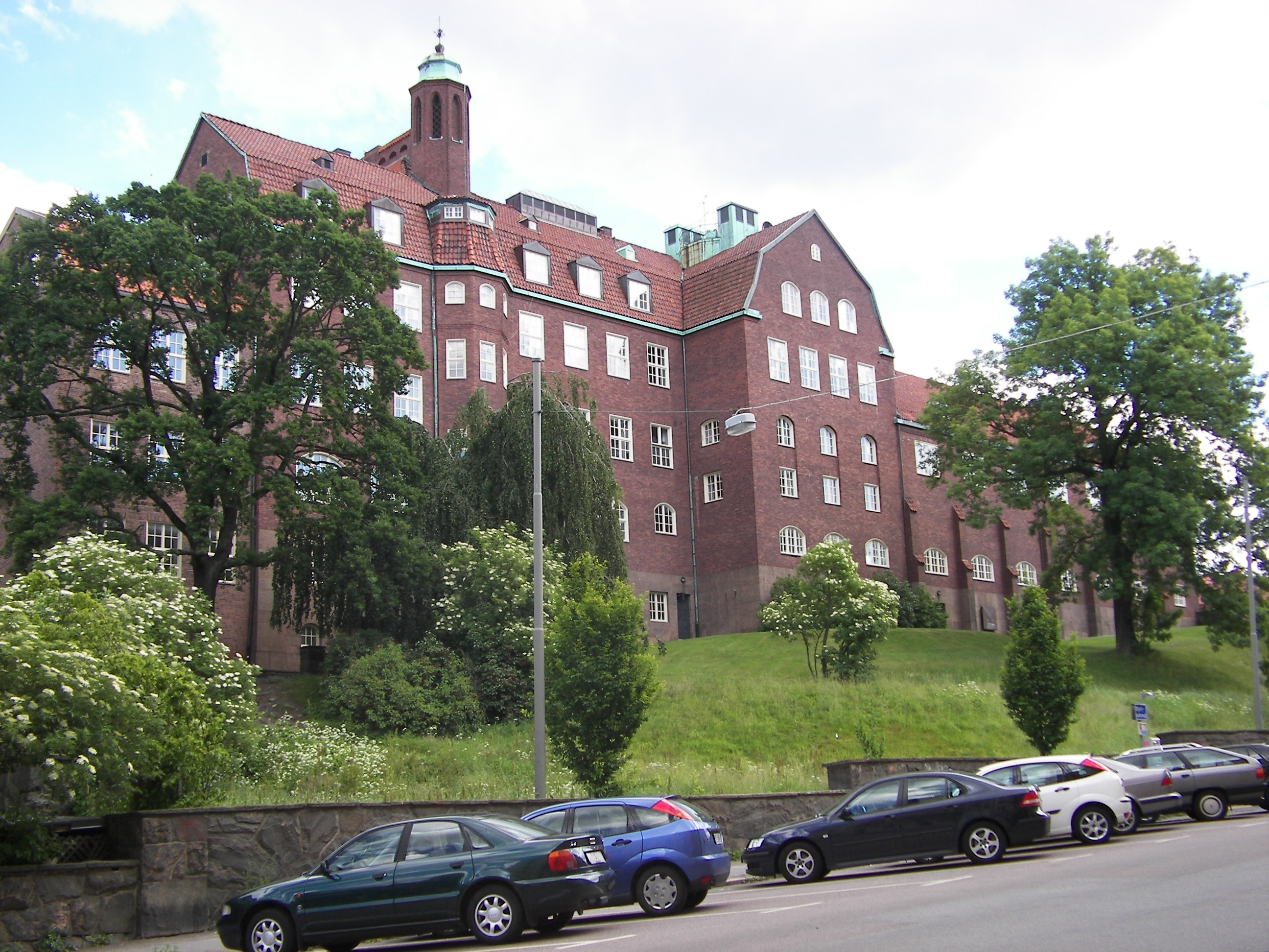 Secondary school Hvitfeldtska in Göteborg, Sweden.